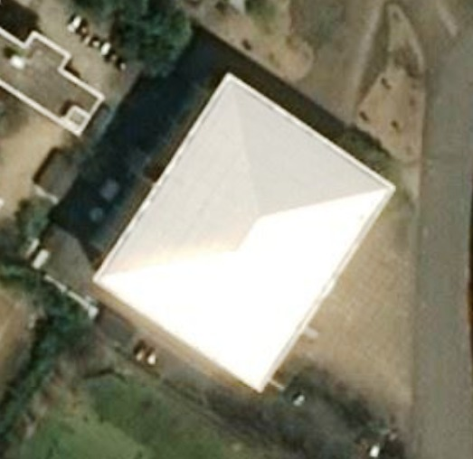 Komagihara Gymnasium.